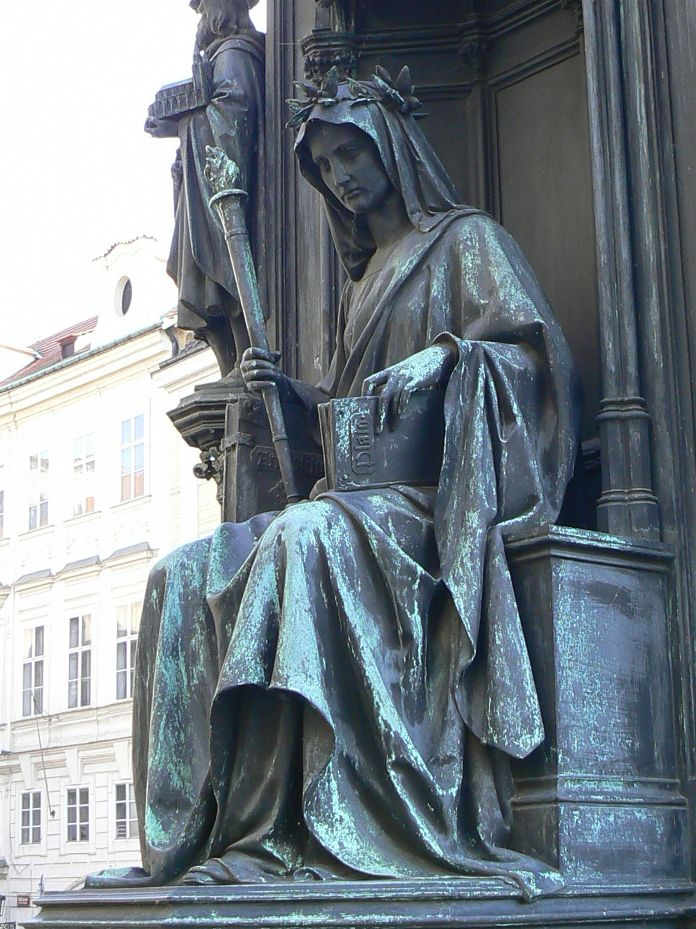 Personification of the Faculty of Arts (decoration of the northern face of the pedestal of the statue of Charles IV, Holy Roman Emperor; Křižovnické Square, Prague, Czechia)